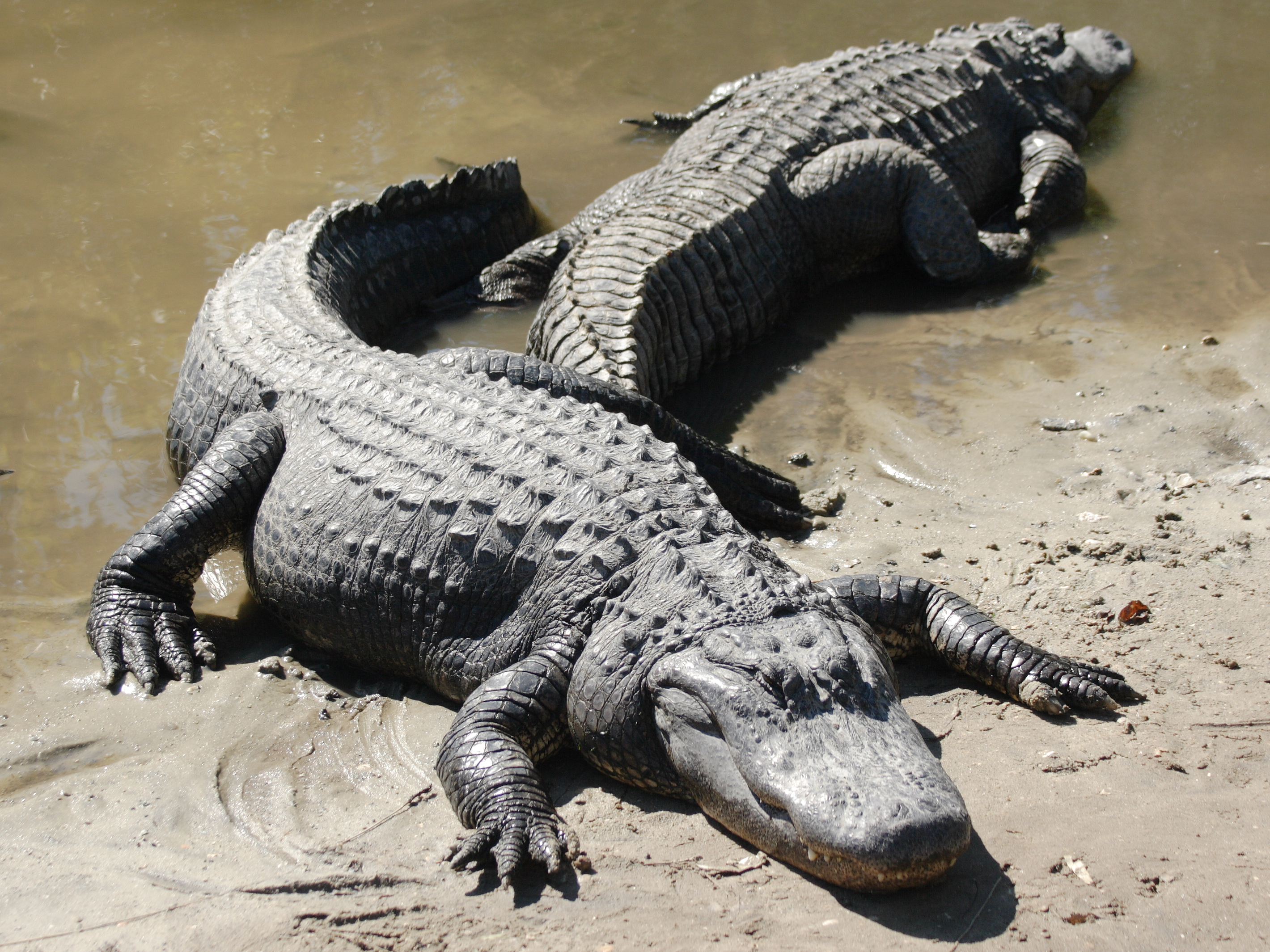 Two American Alligators (Alligator mississippiensis), Florida, USA